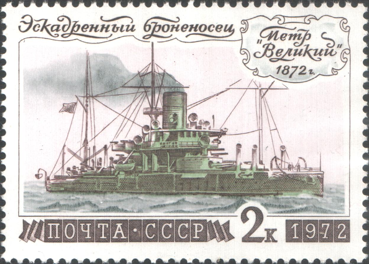 USSR stamps